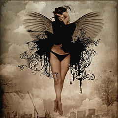 A Neo-Surrealism art work. Combining photography and advenced digital edition work.